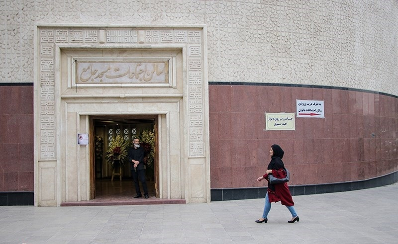 Shahrak-e Gharb